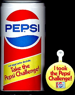 Early 1980s U.S. 12 oz. "Pepsi Challenge" promotional can, plus promotional button given for partaking in the challenge.